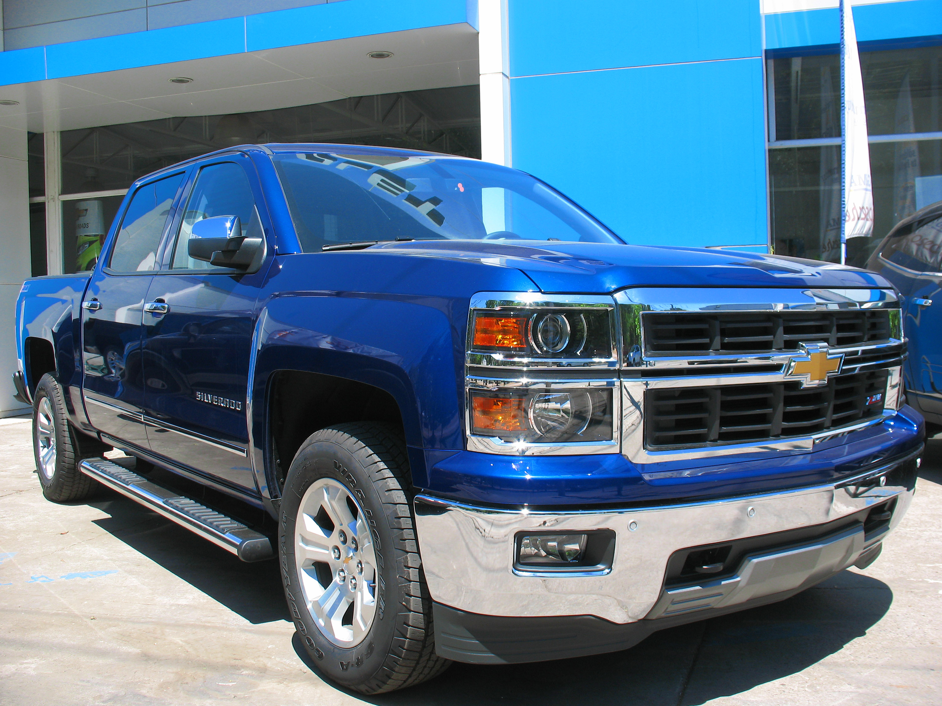 Chevrolet Silverado LTZ Z71 Crew Cab 2014